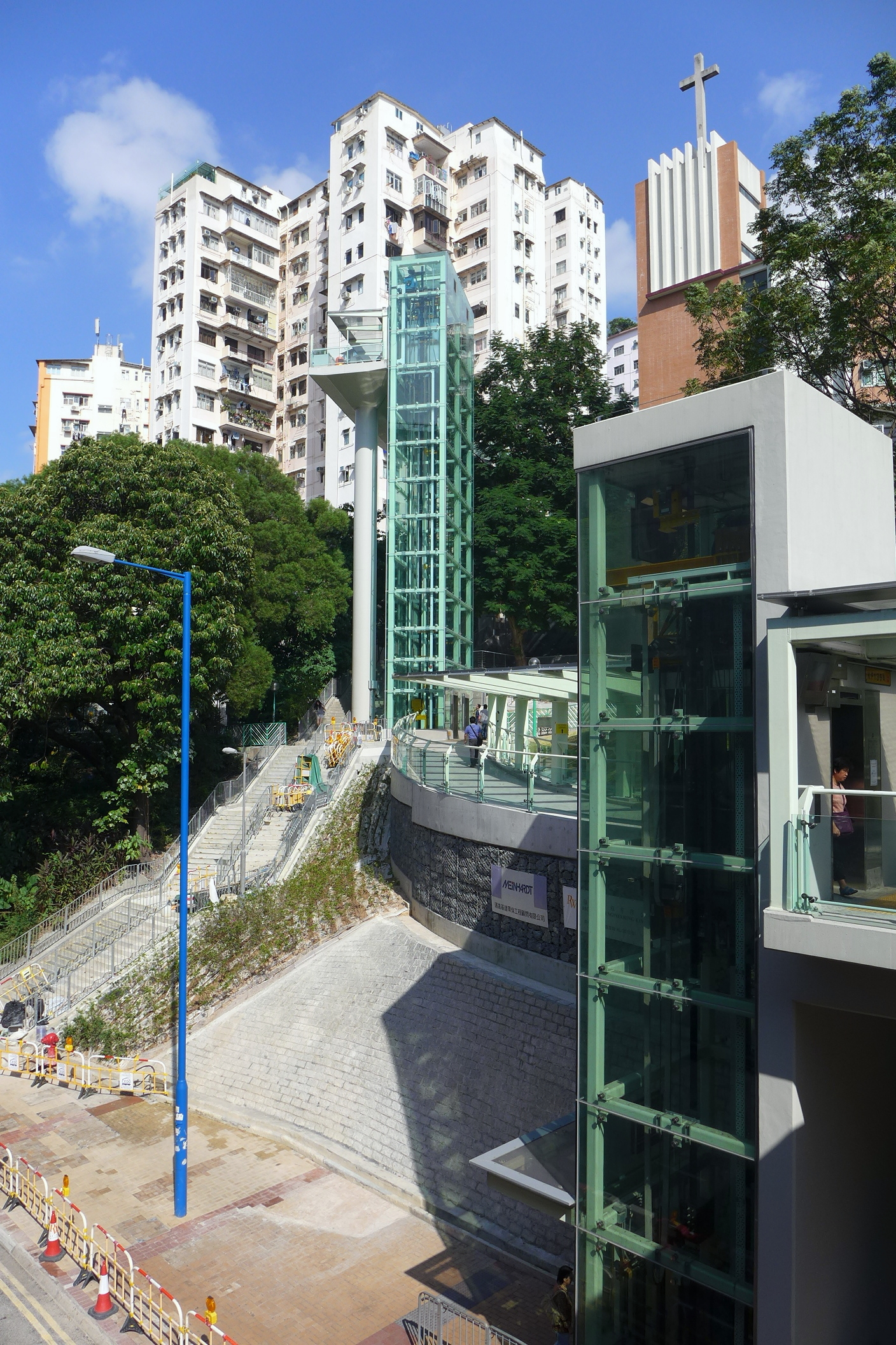 Lift tower to Yuet Wah Street